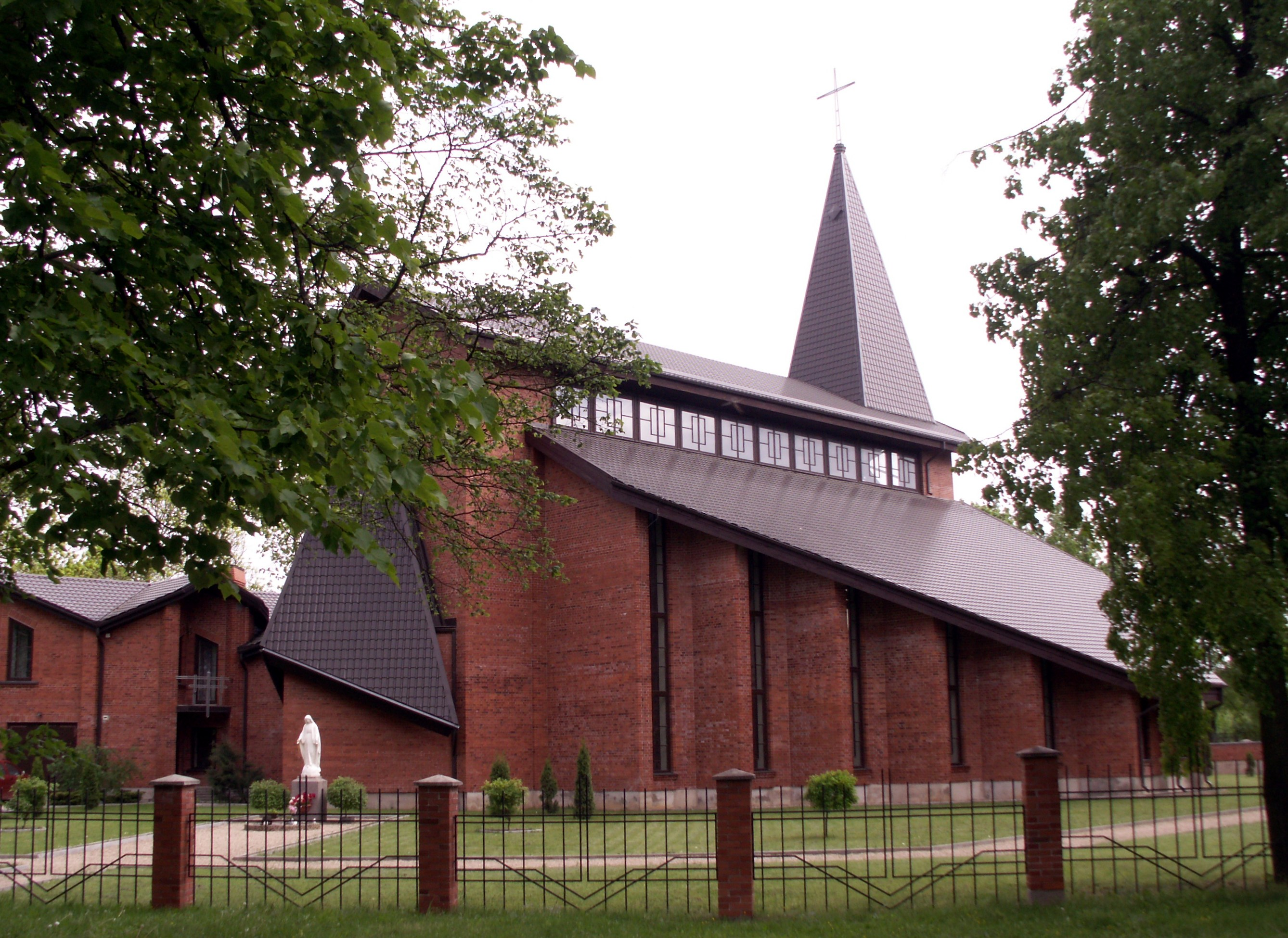 Dobele, Latvia - catholic church.